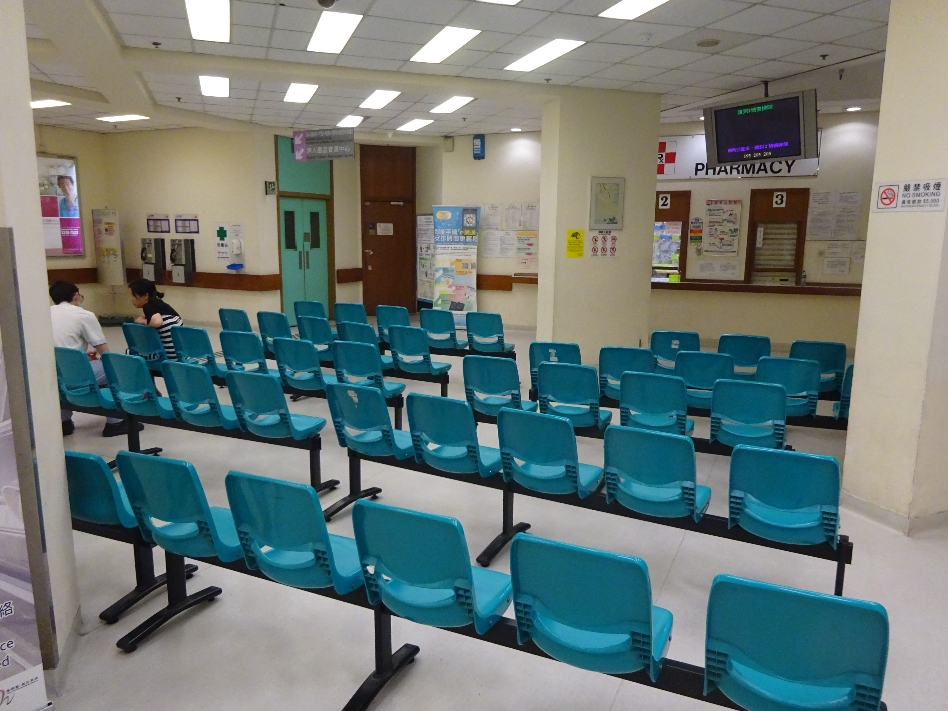 HK 屯門醫院 Tuen Mun Hospital in July 2016